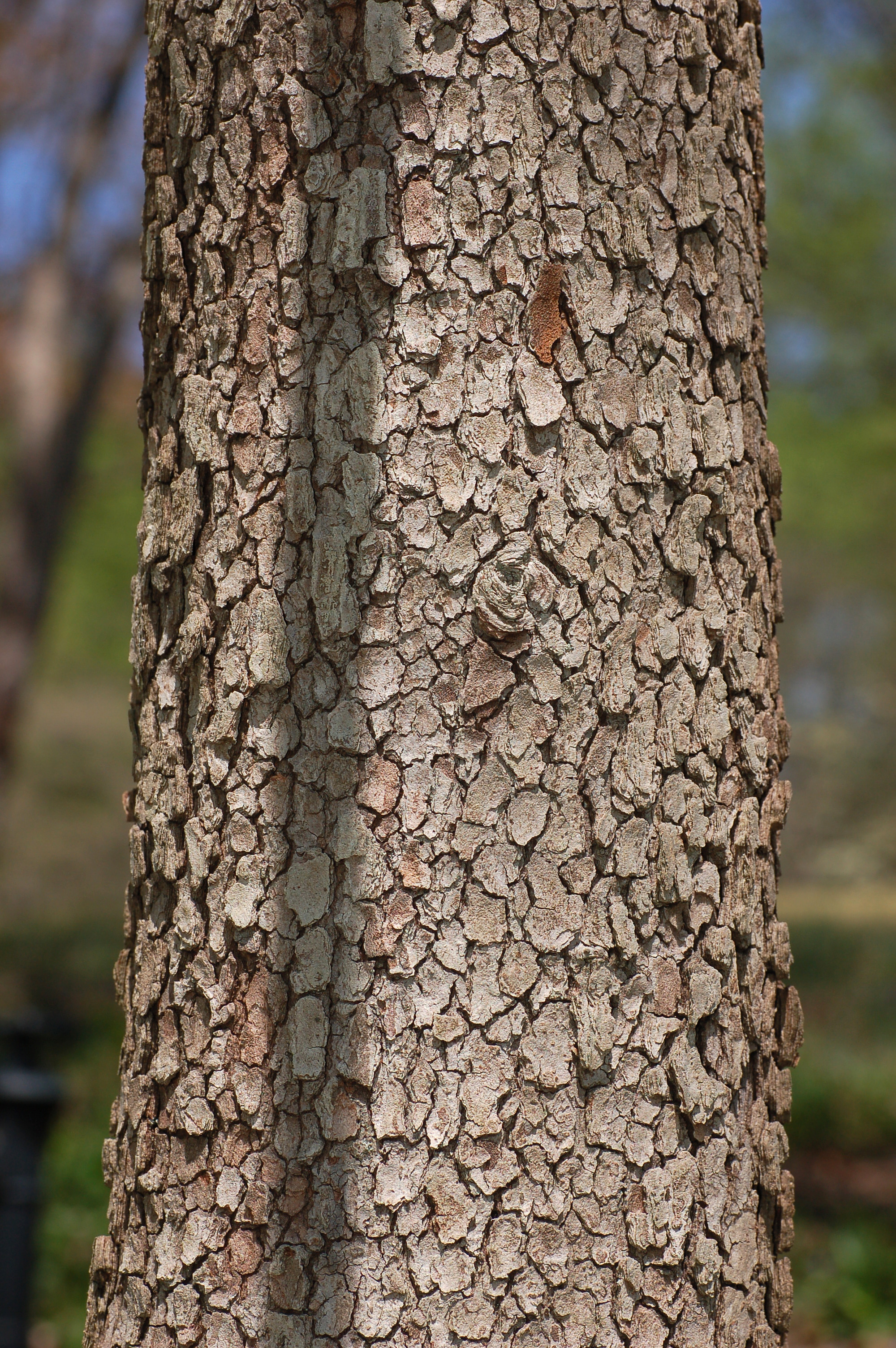 Photograph of bark of the Flowering Dogwooden (Cornus florida en ). Photo taken at the Mt. Cuba Center where it was identified.